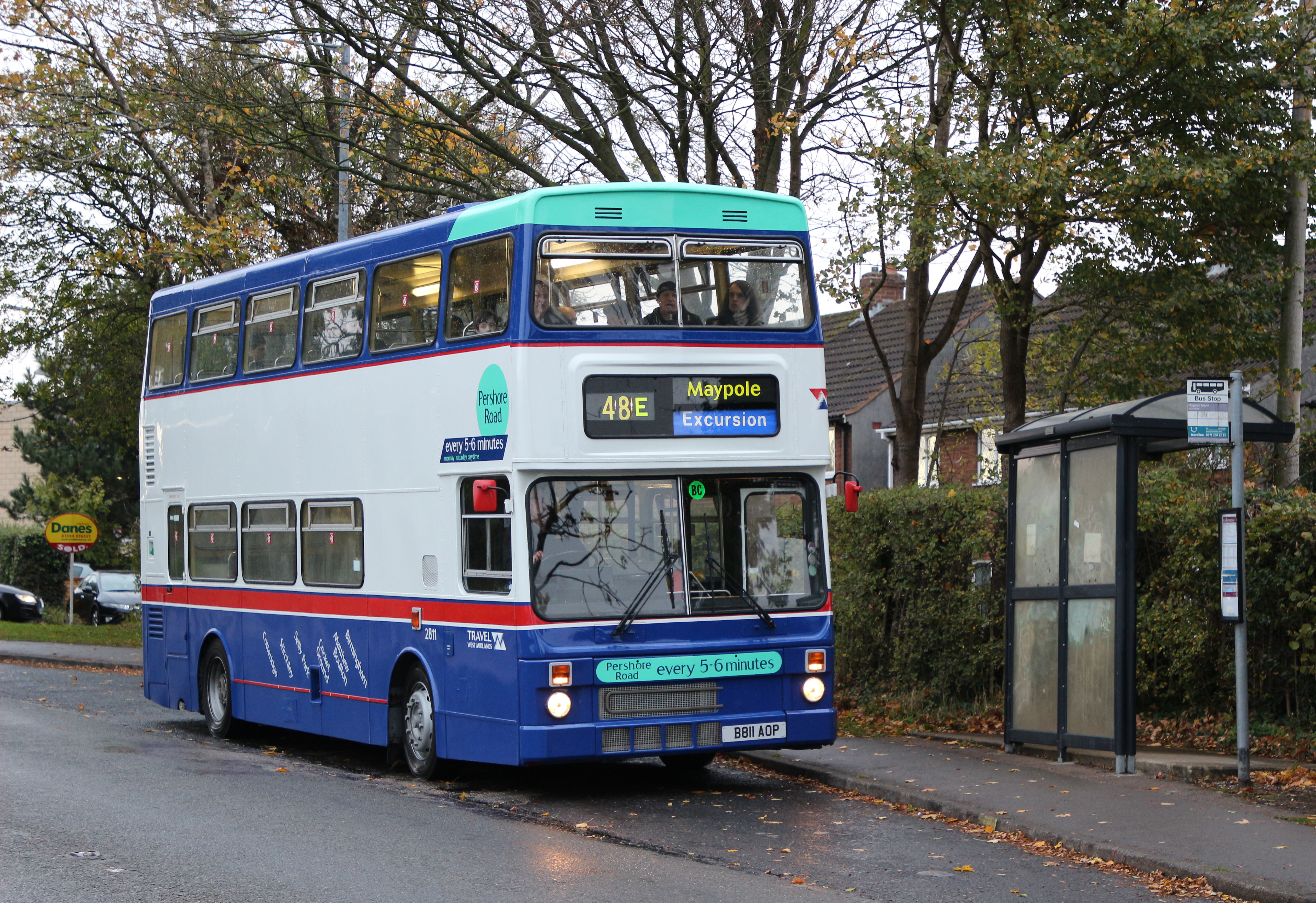 A preserved Travel West Midlands MCW Metrobus, operated by the Wythall transport museum